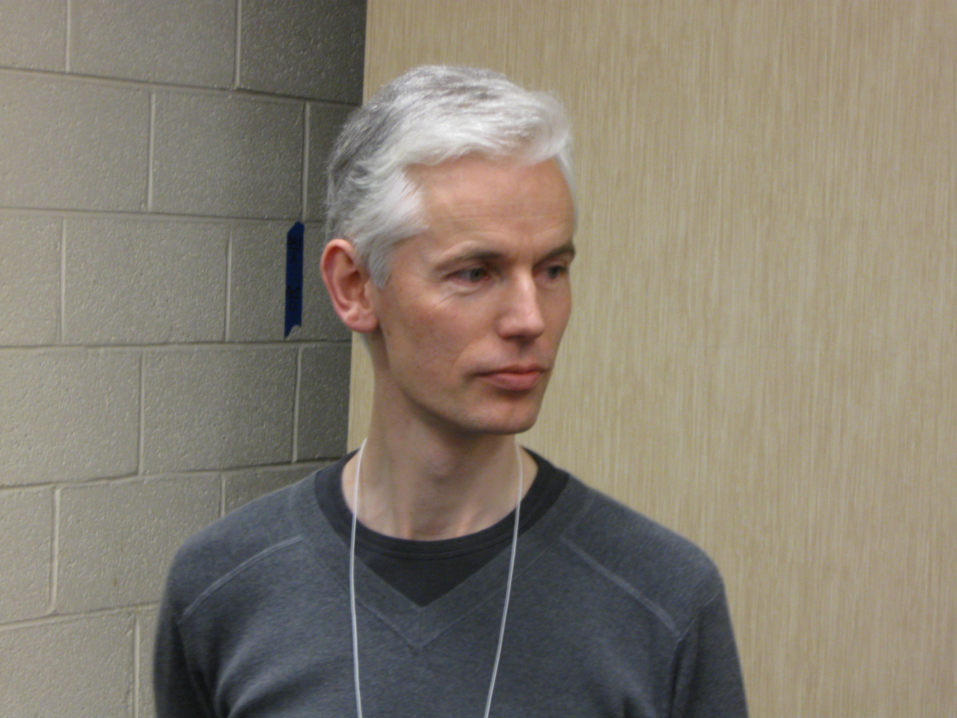 Timothy Gowers, Rouse Ball Professor of Mathematics at Cambridge University. Photographed at the Joint Mathematics Meetings in Washington, DC, January 2009.